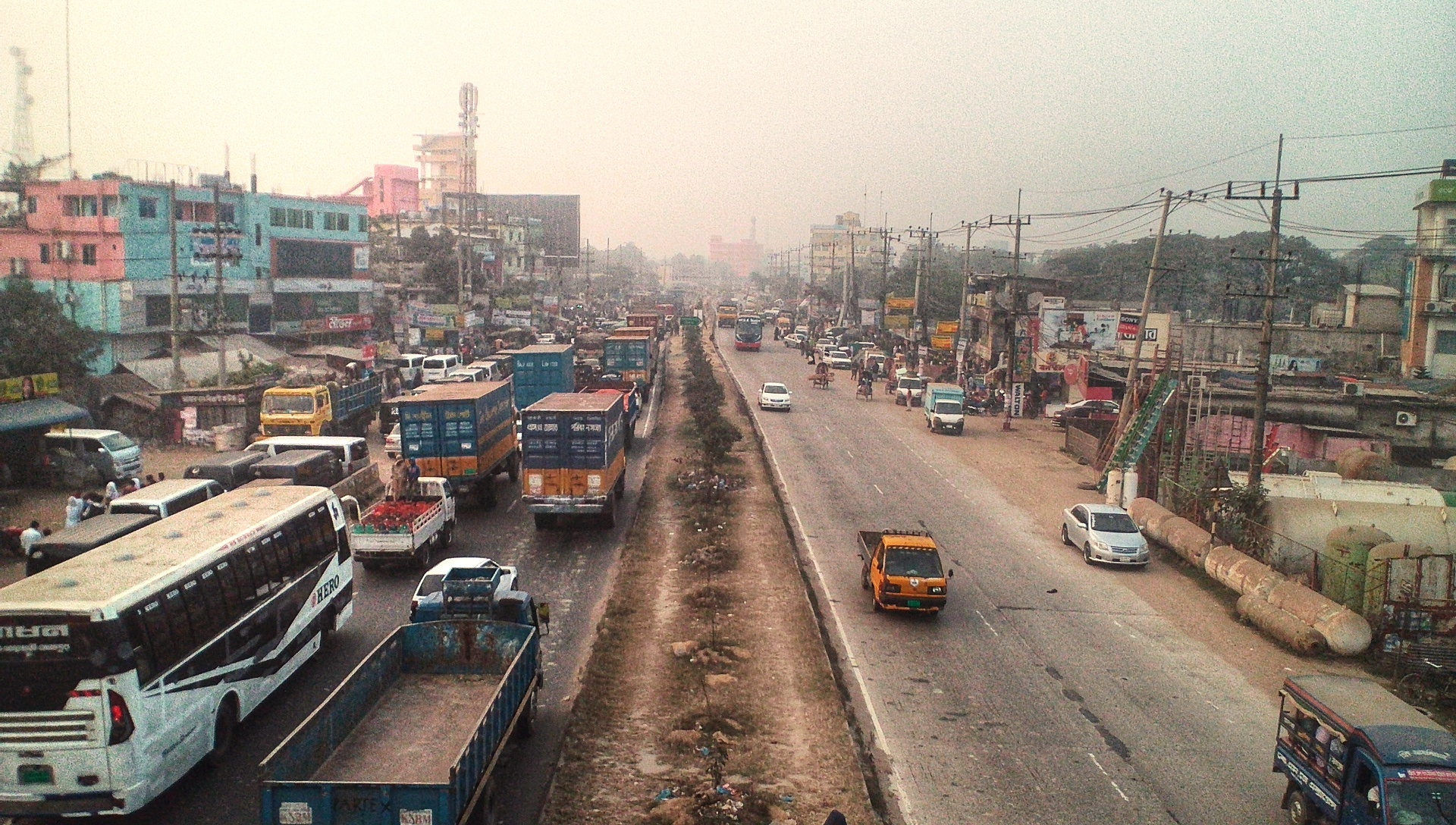 It is an image of Bhatiary Area in Chittagong.